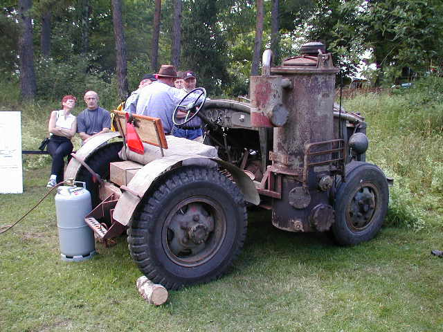 A Ford converted to EPA tractor and fitted with wood gasifier.